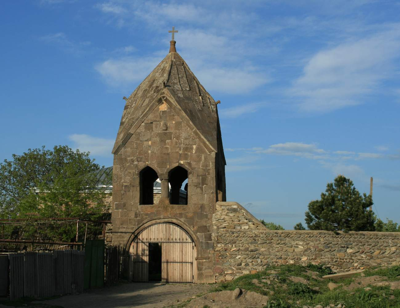 Nikozi belltower, Georgia